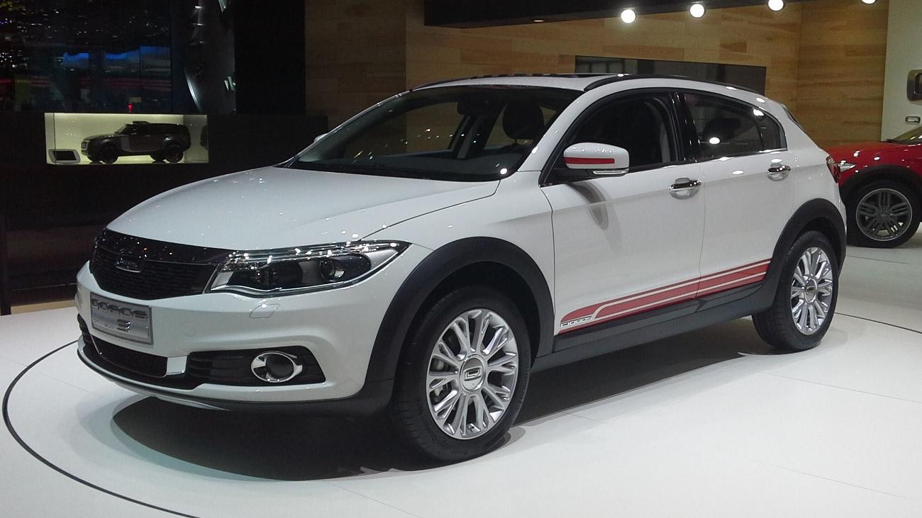 Qoros 3 City SUV photographed at the 2015 Geneva Motor Show, Geneva, Switzerland.